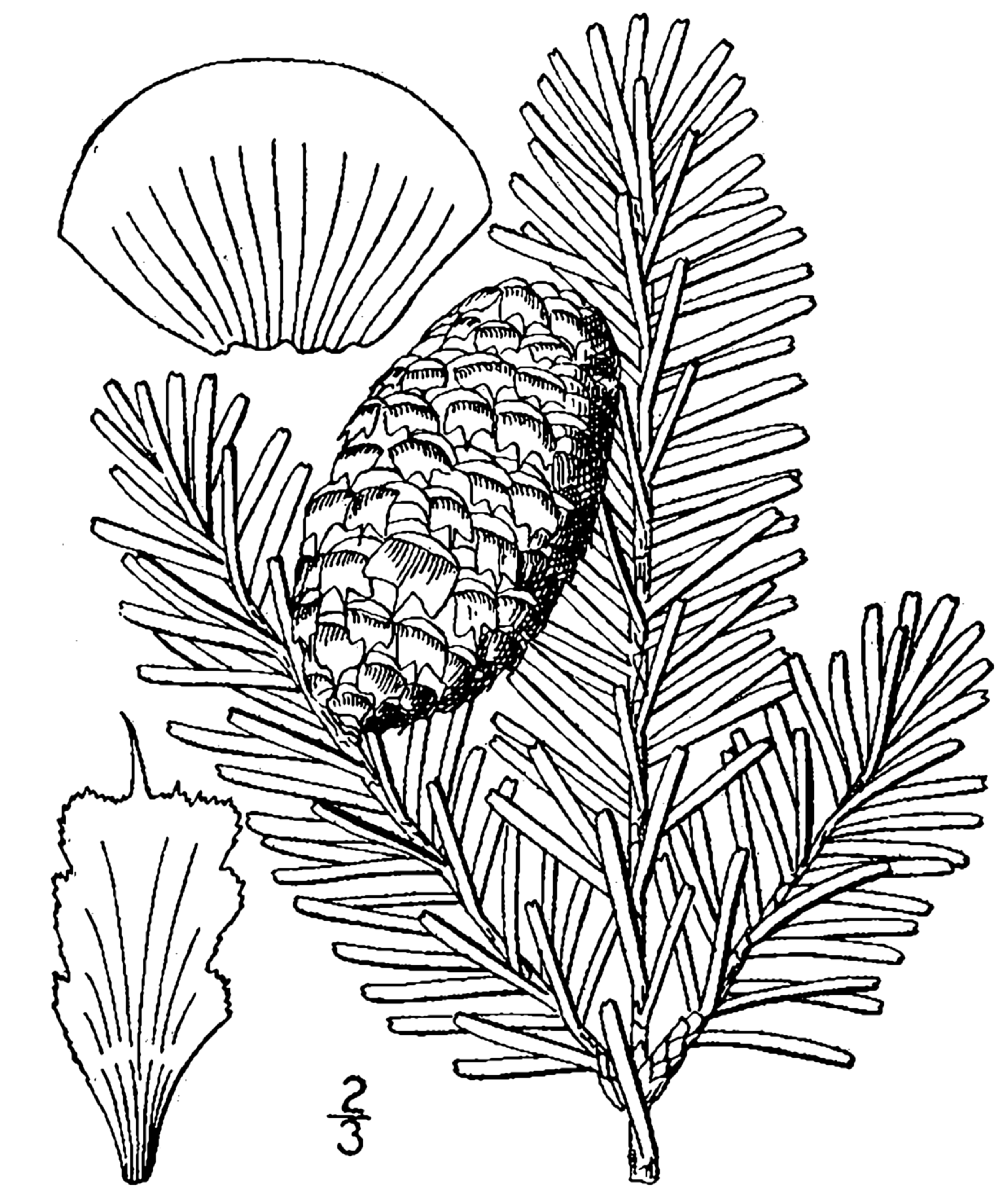 Fraser Fir. Drawing.